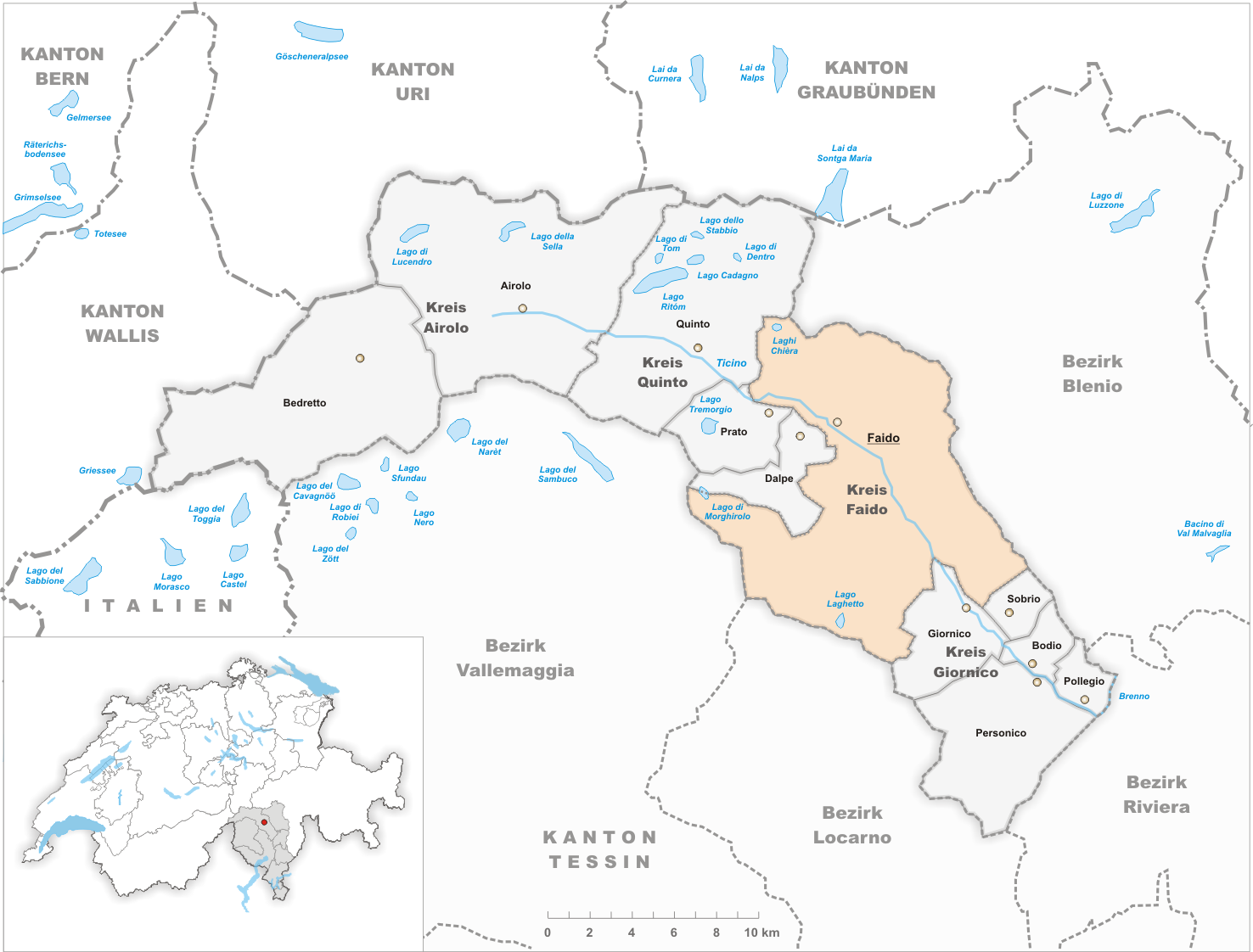 Municipality Faido